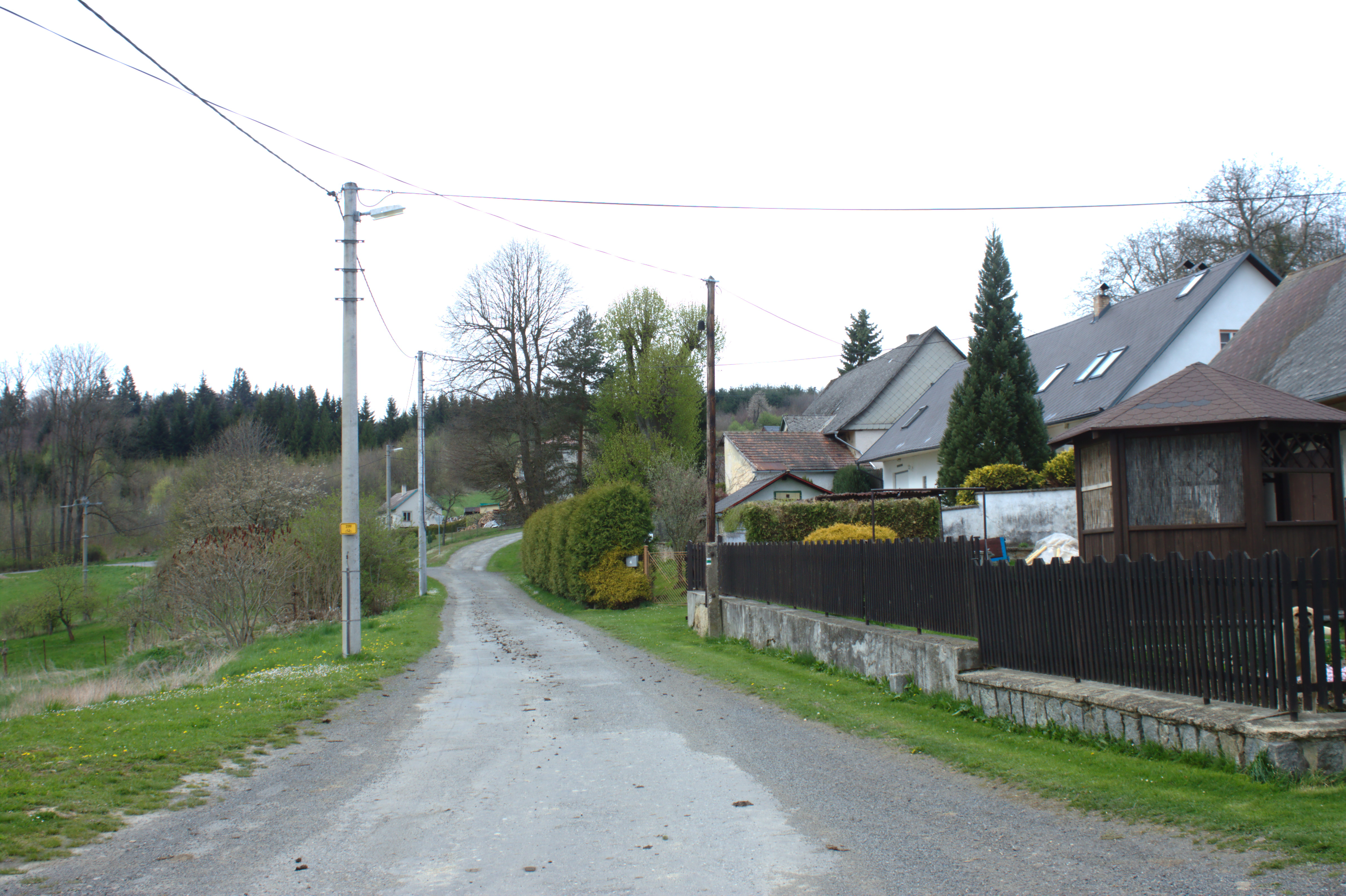 Buildings in the village of Pohoří near Plánice, CZ